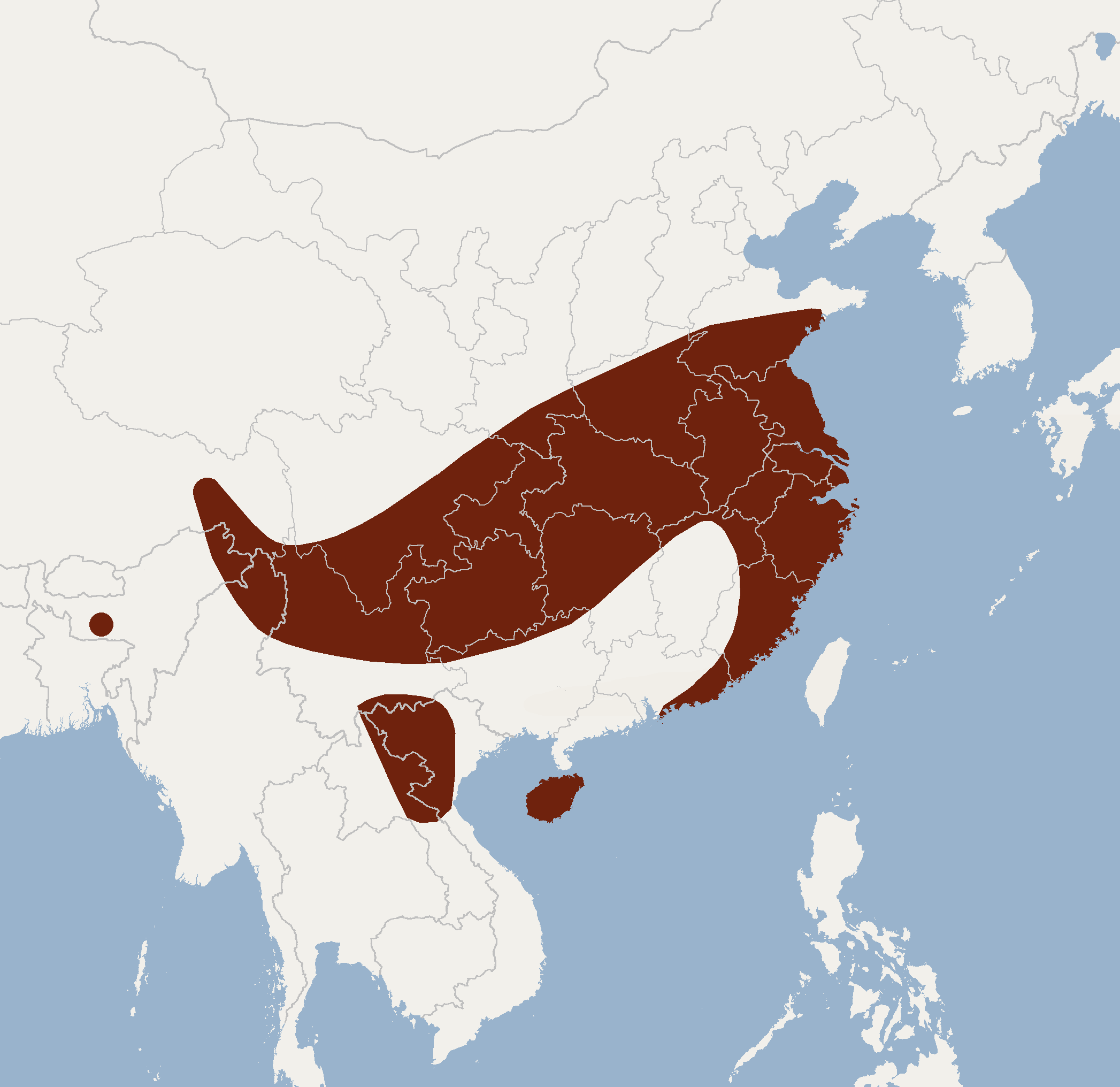 According to Smith & Xie, 2008, Francis, 2008 and Molur, 2002